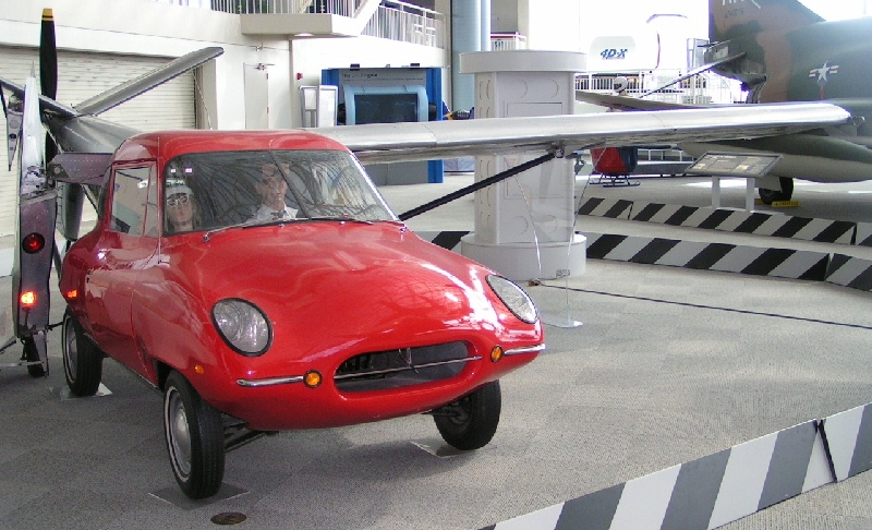 Aerocar III Displayed in Museum of Flight in Seattle. Photo taken by Wikipedia User: JimCollaborator on March 5, 2005